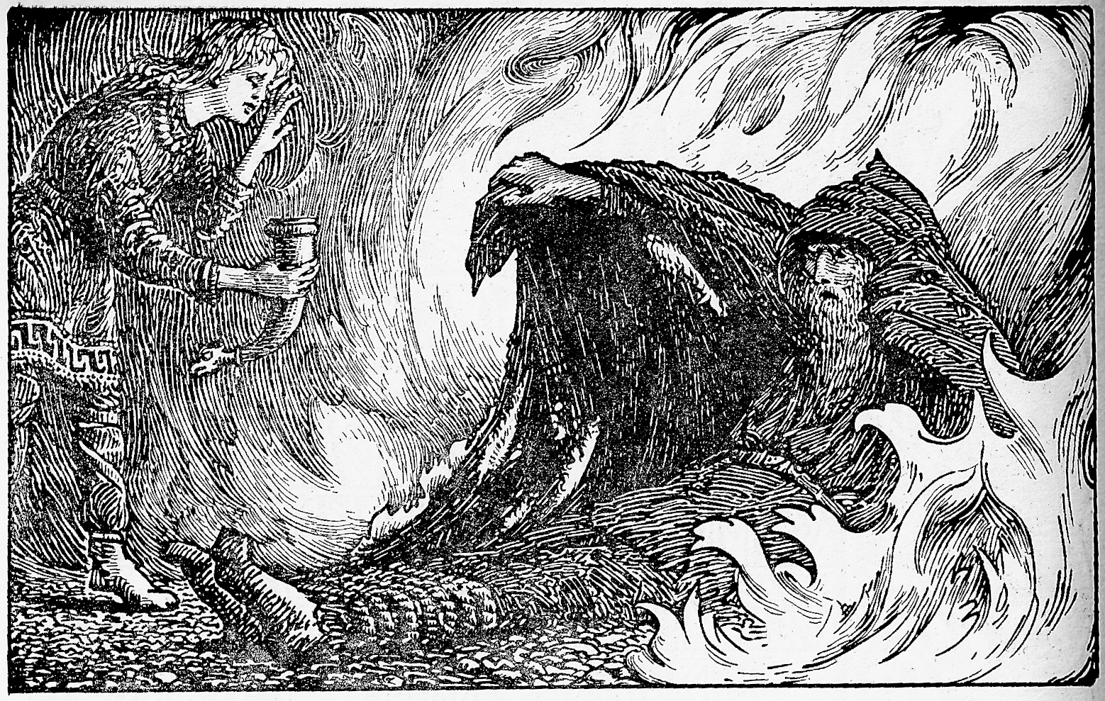 The god Odin is handed a full horn from which to drink by Agnarr, as described in Grímnismál. The list of illustrations in the front matter of the book gives this one the title Odin in Torment.